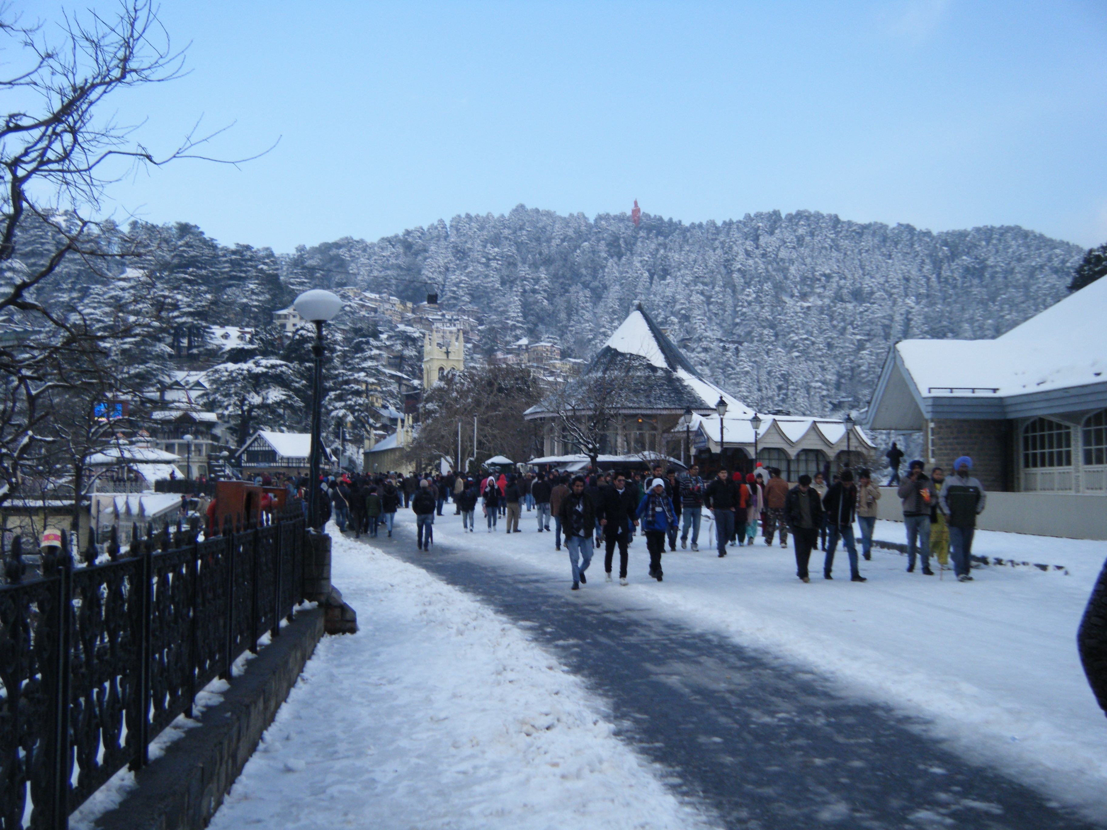 An elevated view.